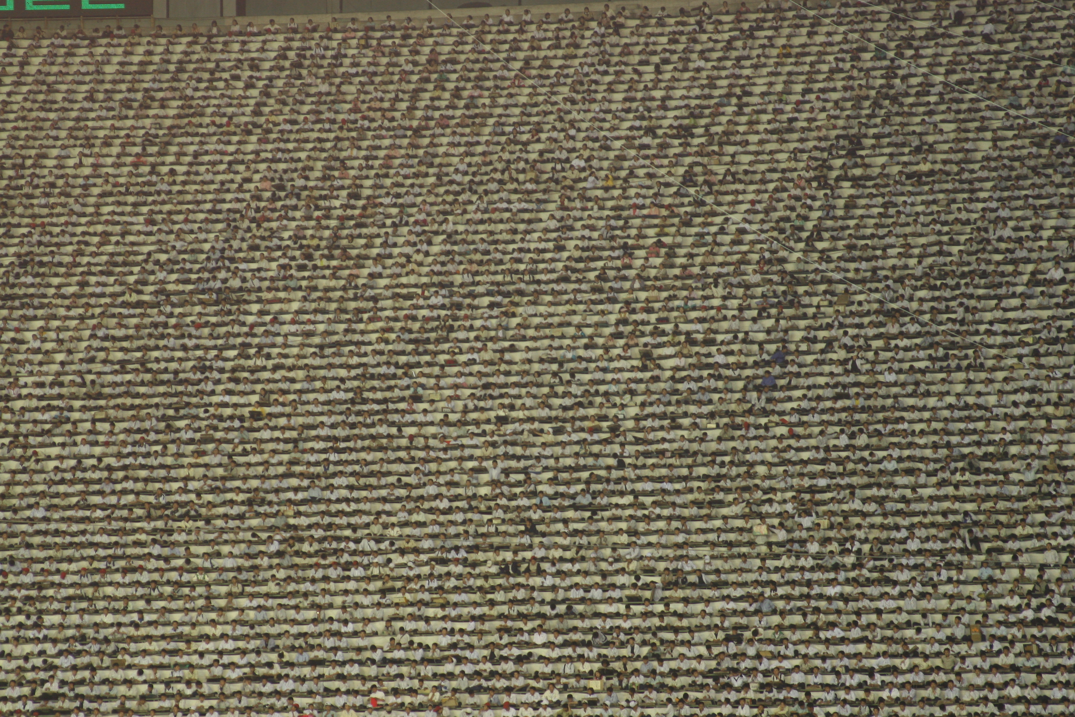 Kids holding Placards, Mass Games Rehersals, Korea